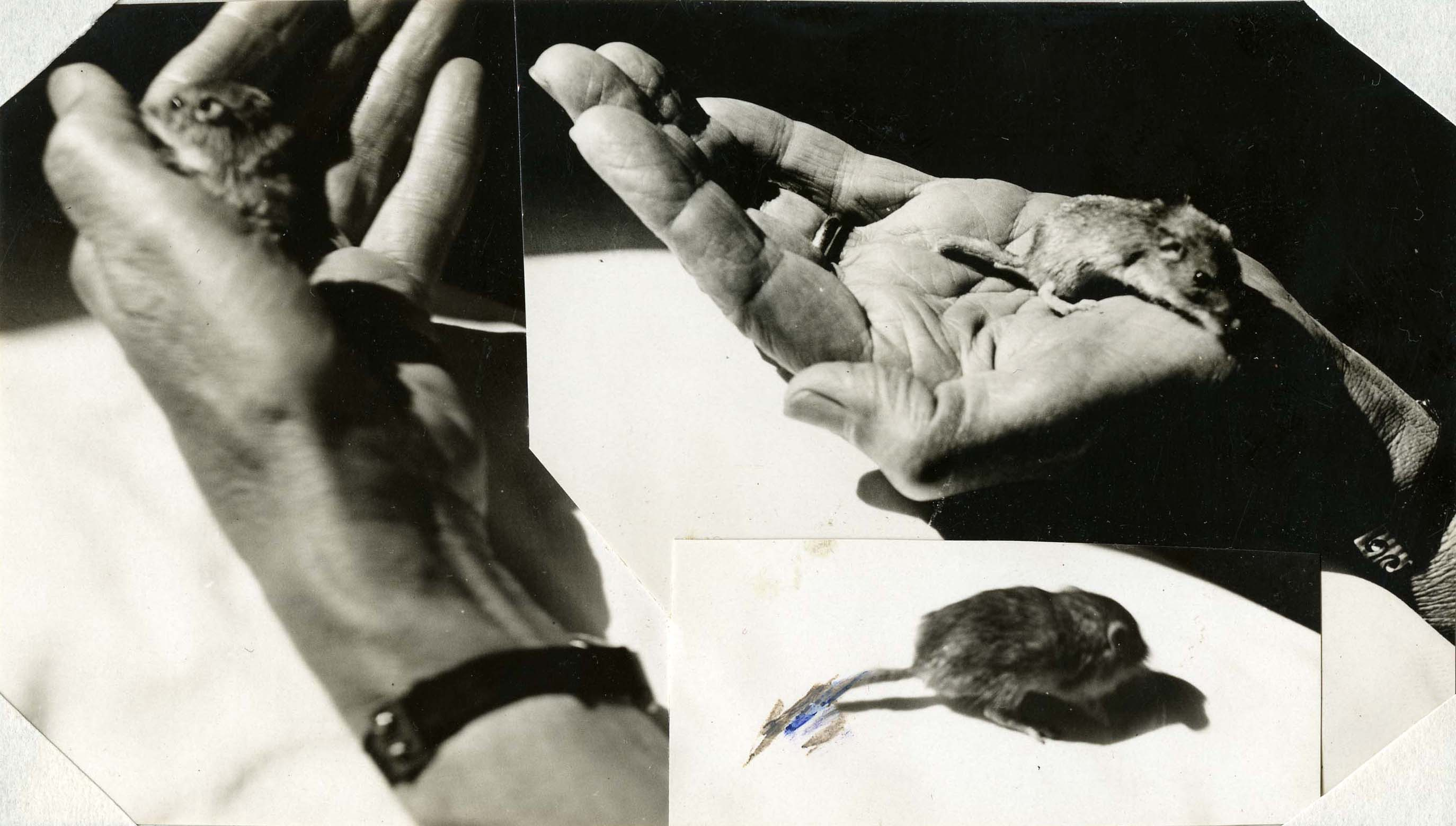 Cropped image of a Perognathus pacificus (pocket mouse)